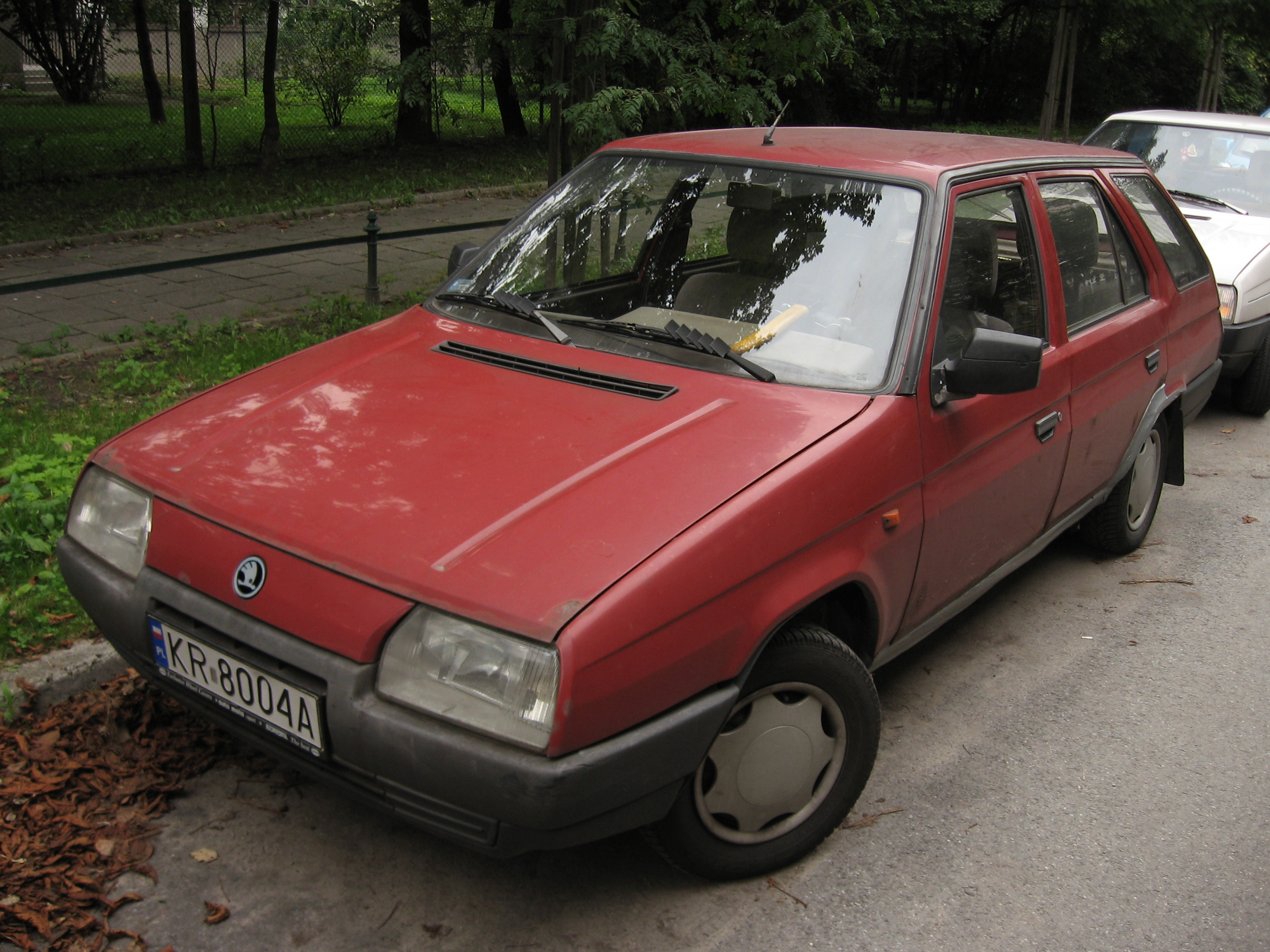 Škoda Forman 135 LS car in Kraków, Poland.